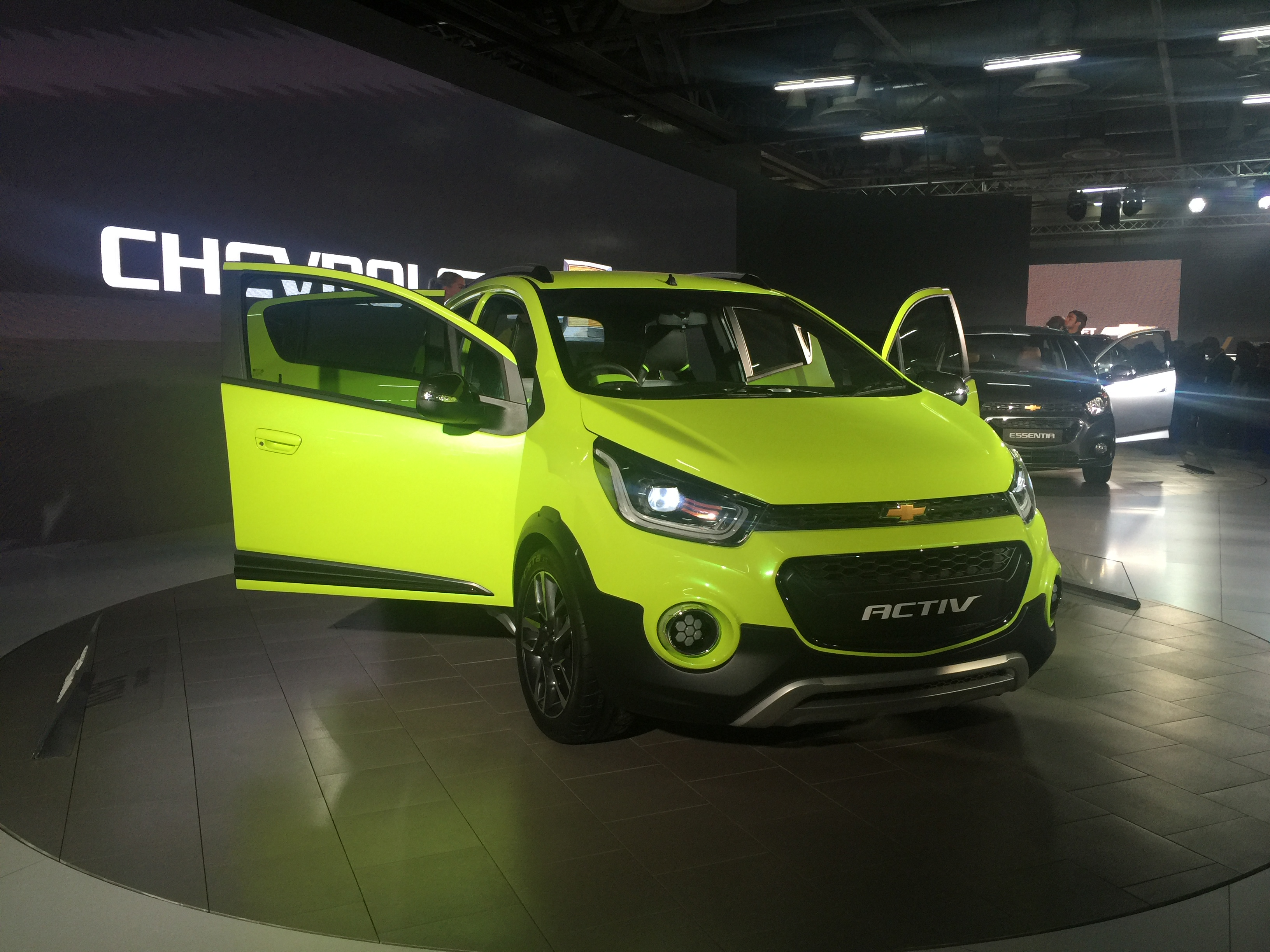 Chevrolet Beat Activ at Auto Expo 2016